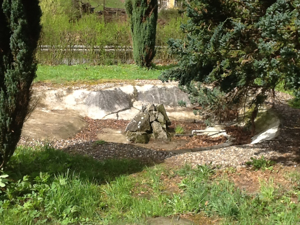 Lázně Kyselka 2014 7